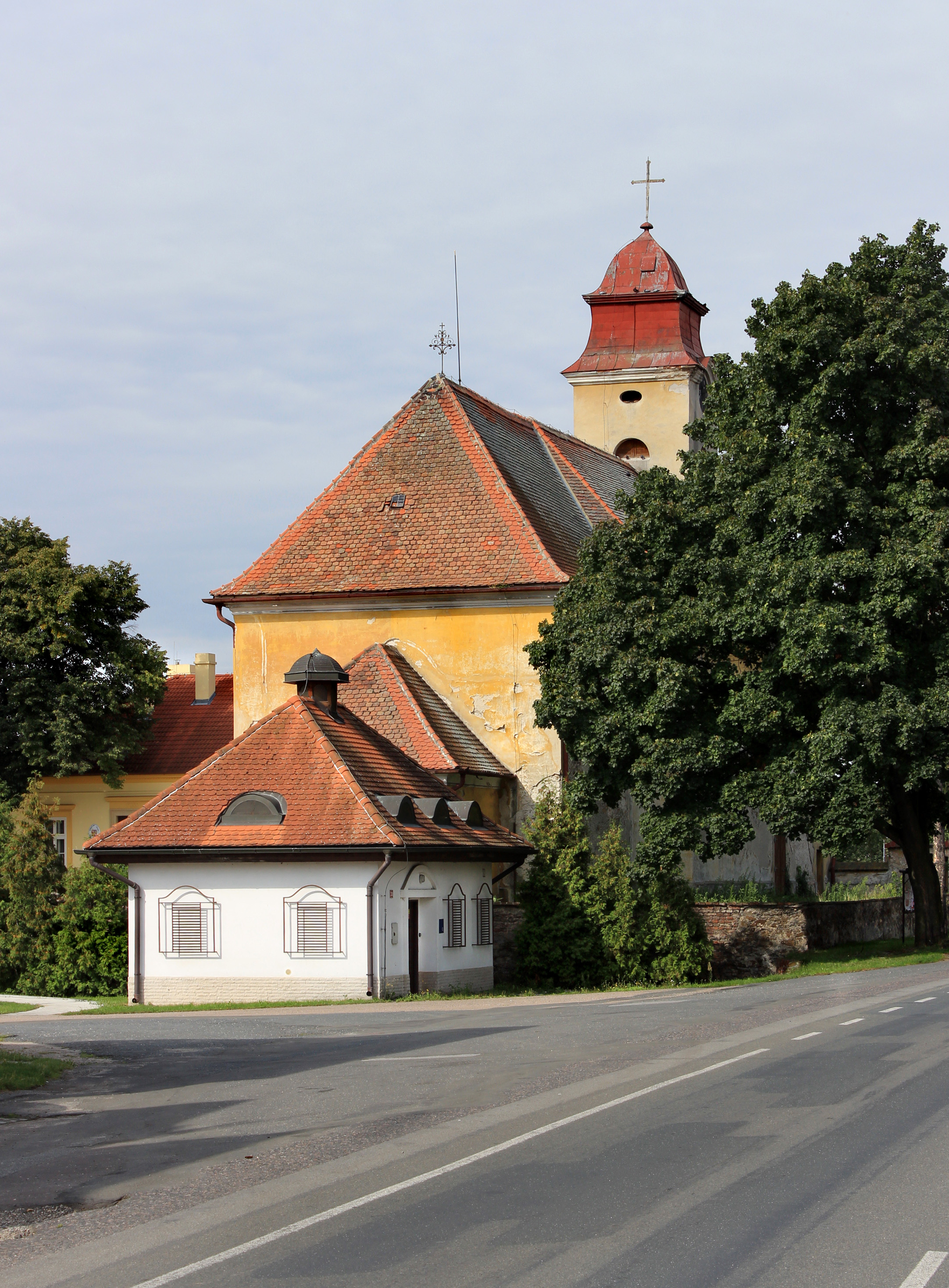 Church of the Assumption of the Virgin Mary in Kostelní Lhota, Czech Republic.